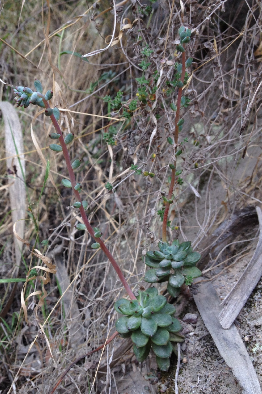 Echeveria amoena is a plant in the stonecrop family Crassulaceae. It is native to the semiarid Oriental Basin in east-central Mexico. This photo was taken on the inner, shady slopes of Atexcac maar in Guadalupe Victoria, Puebla.